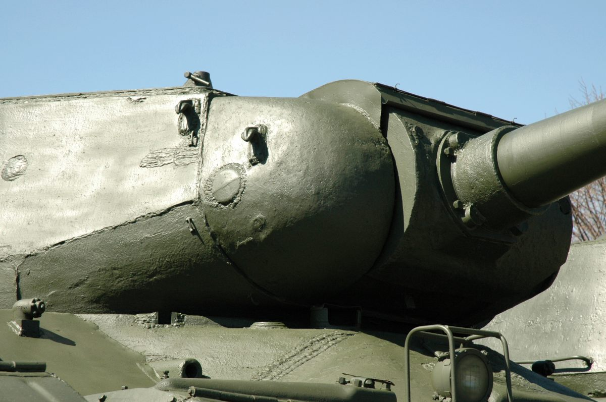 Turret of the Iosif Stalin IS-2 Soviet heavy tank (Museum of Great Patriotic War, Kyiv)